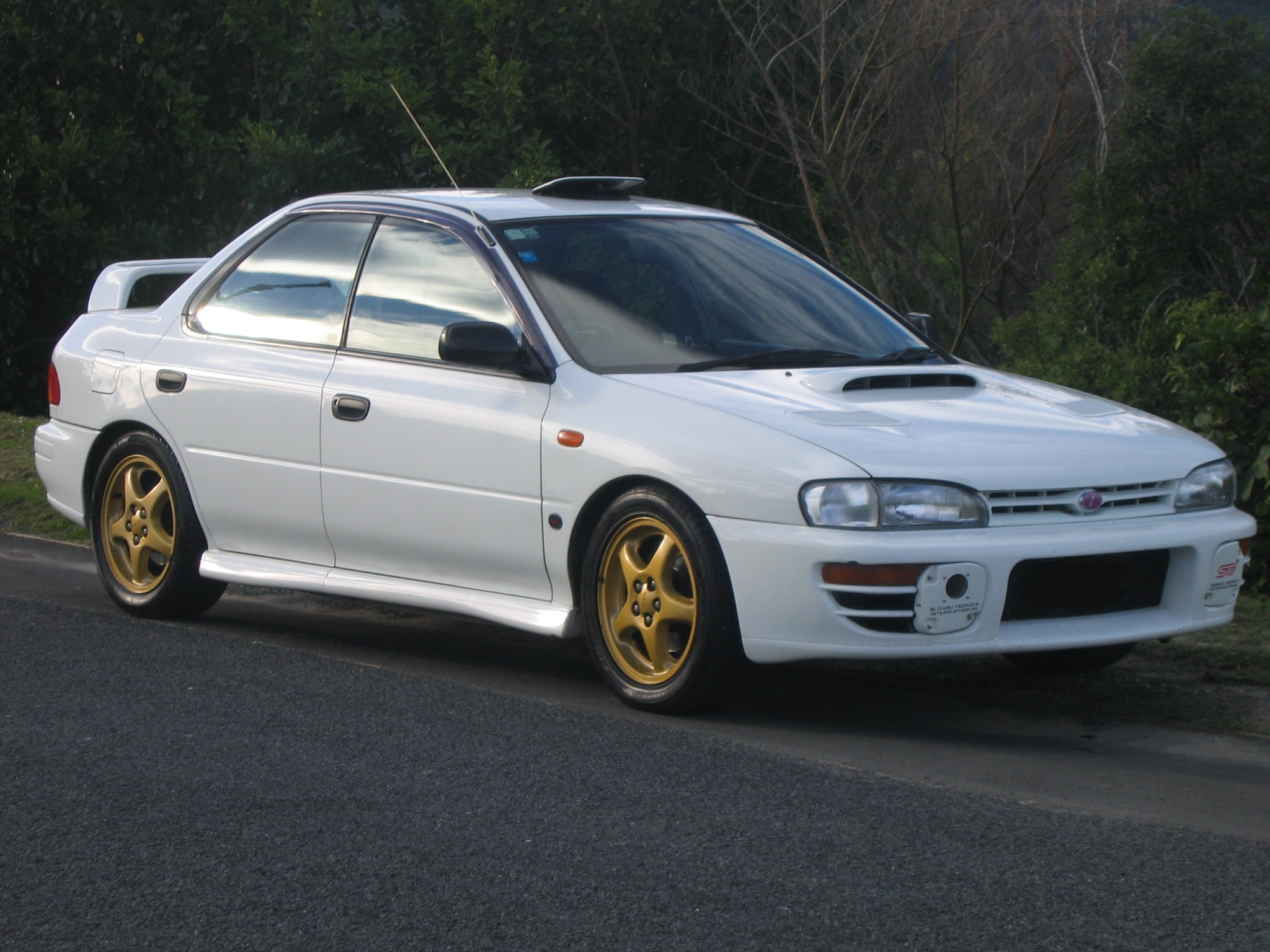 1995 Subaru Impreza WRX STI RA. Originally from en.wikipedia; description page is/was here.